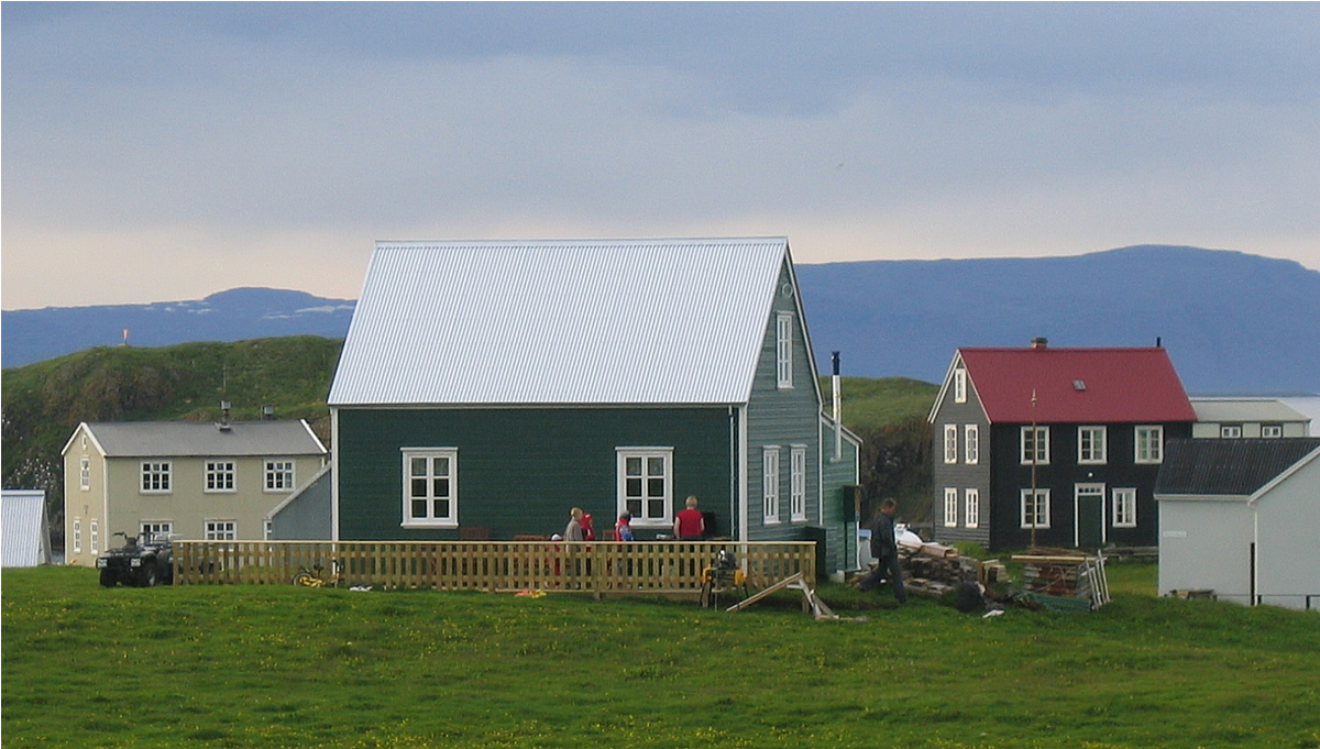 Flatey á Breiðafirði, Iceland Photo by Salvor Gissurardottir, July 2006